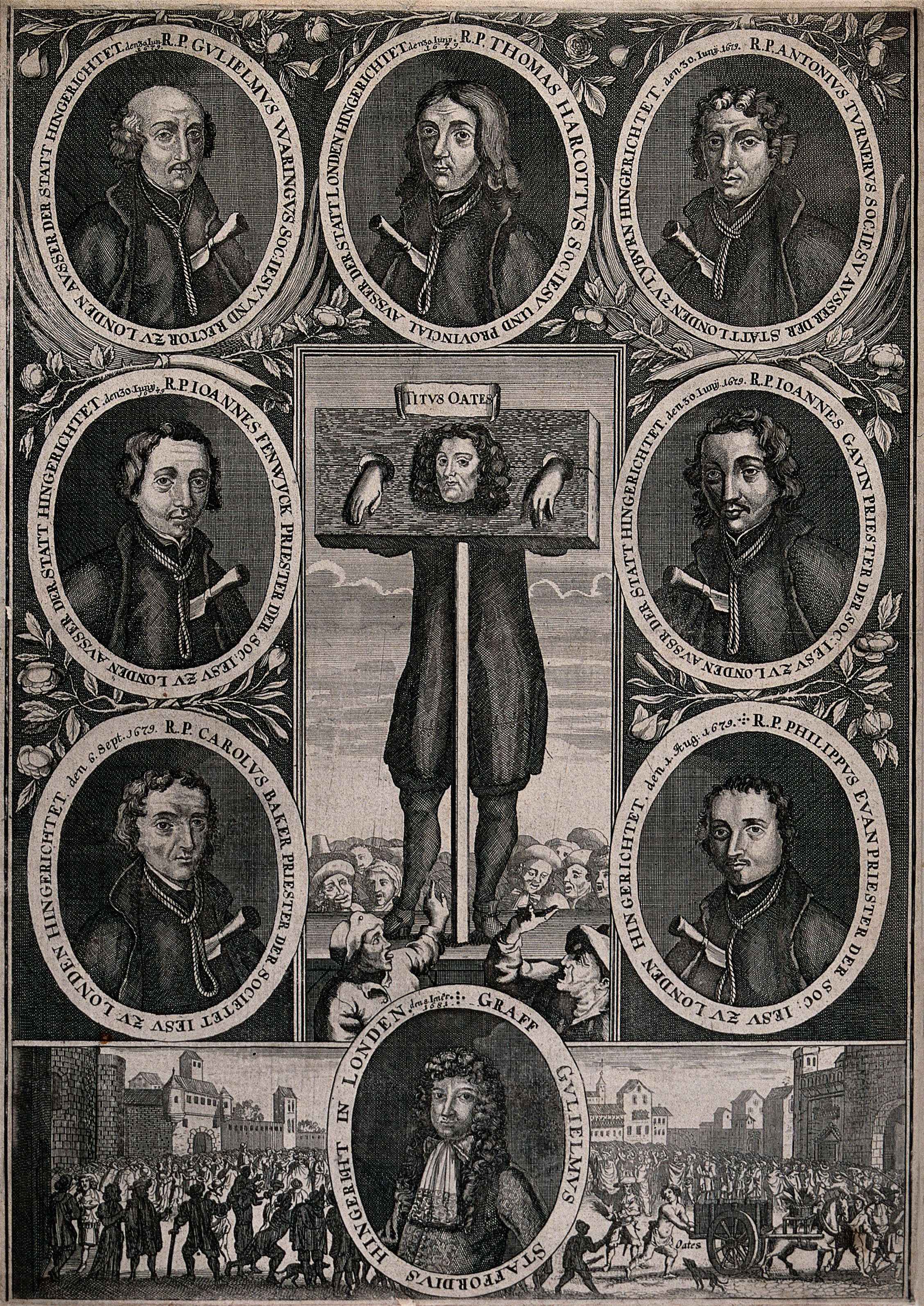 Titus Oates standing in the pillory surrounded by medaillons of people executed as a result of the Popish Plot in 1678. Etching with engraving. Iconographic Collections